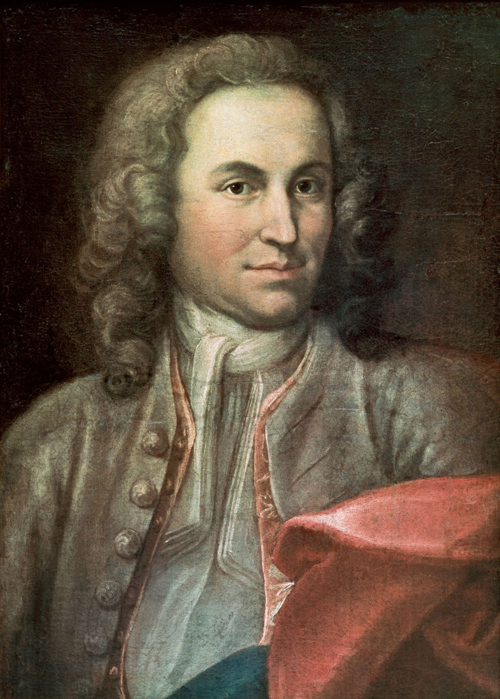 Young Johann Sebastian Bach. Teri Noel Towe seems to demonstrate that the portrait is not of Bach [1] (archive URL).